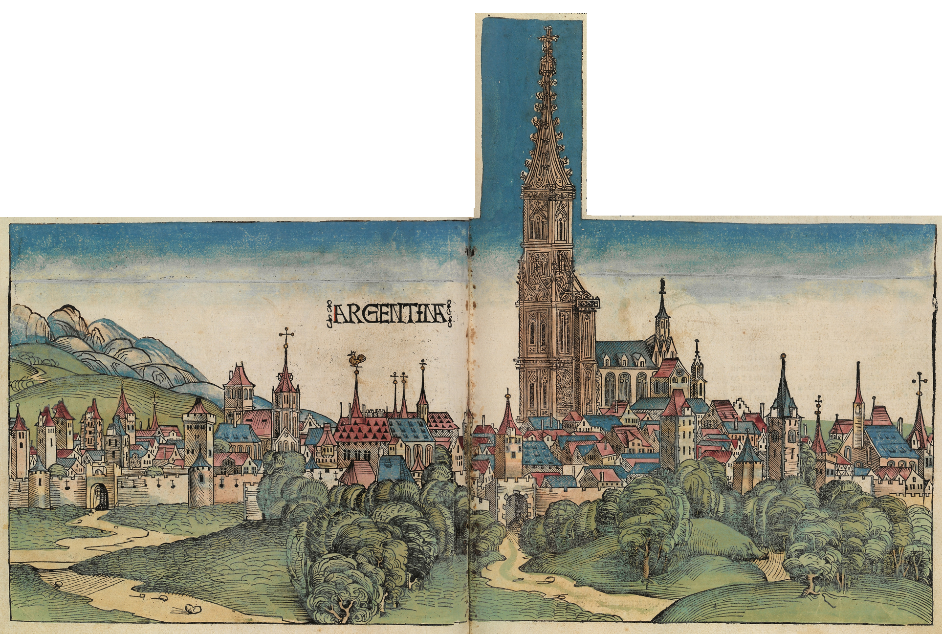 Woodcut of Strasbourg from the Nuremberg Chronicle